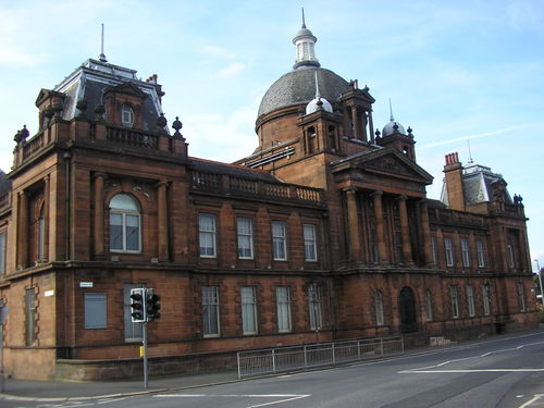 Govan Town Hall, Glasgow, Scotland, United Kingdom